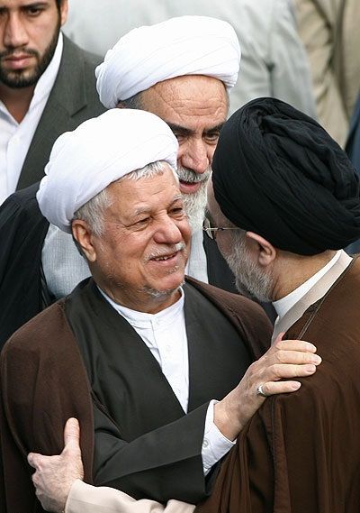 Eid al-Fitr prayer, Tehran (22 8508020027 L600), Rafsanjani and Khatami meets after praying